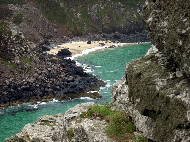 Veor Cove. View across to the sand of Veor Cove from the granite outcrop on the north-west corner of Zennor Head. Pendour Cove is off to the left.